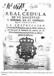 Real Cédula